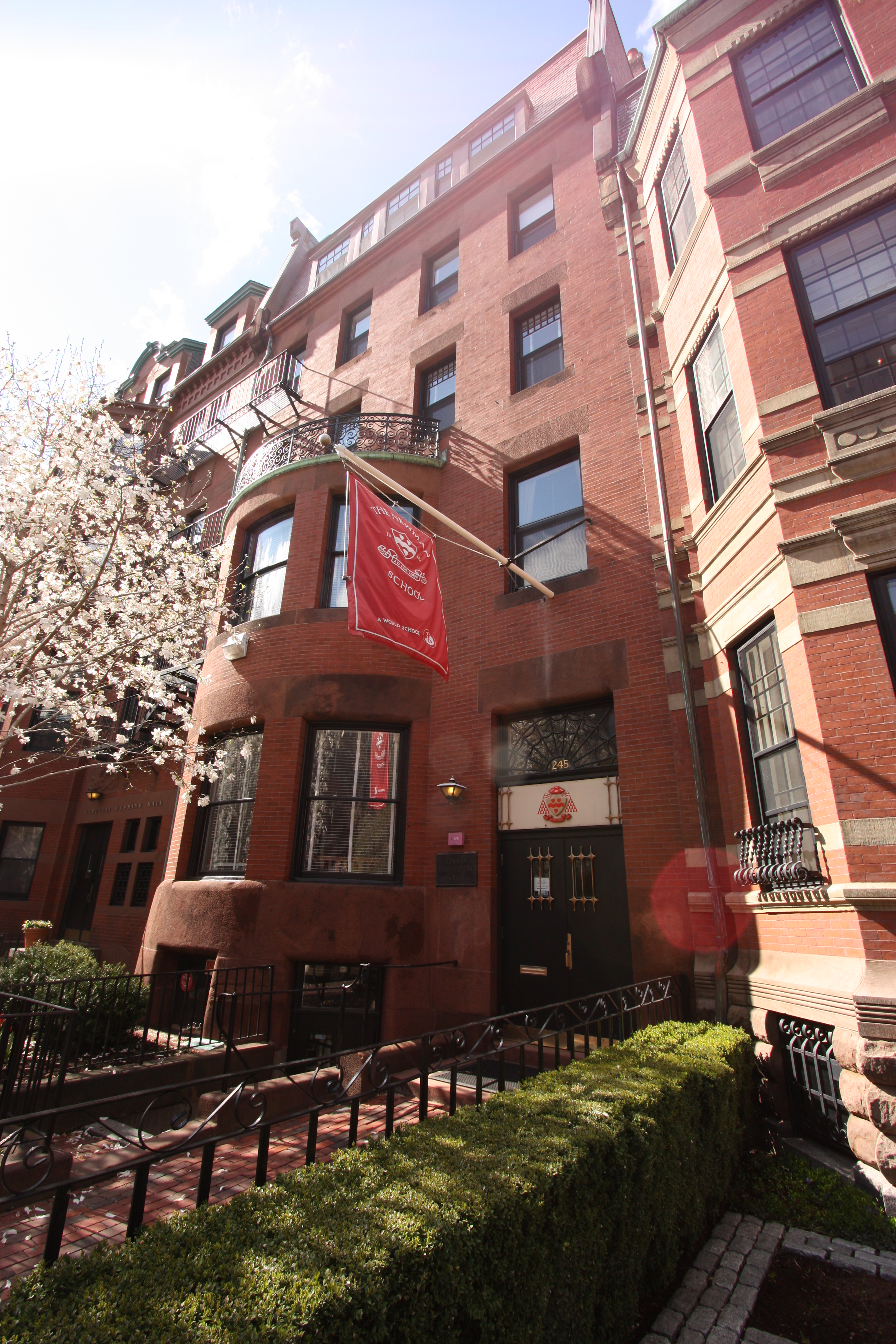 The Newman School, a private high school located at 247 Marlborough Street, Back Bay, Boston, MA 02116. Part of the Wikipedia Takes Boston scavenger hunt.